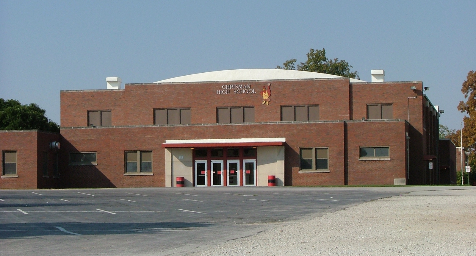 Looking west toward the gymnasium of the Chrisman Illinois high school